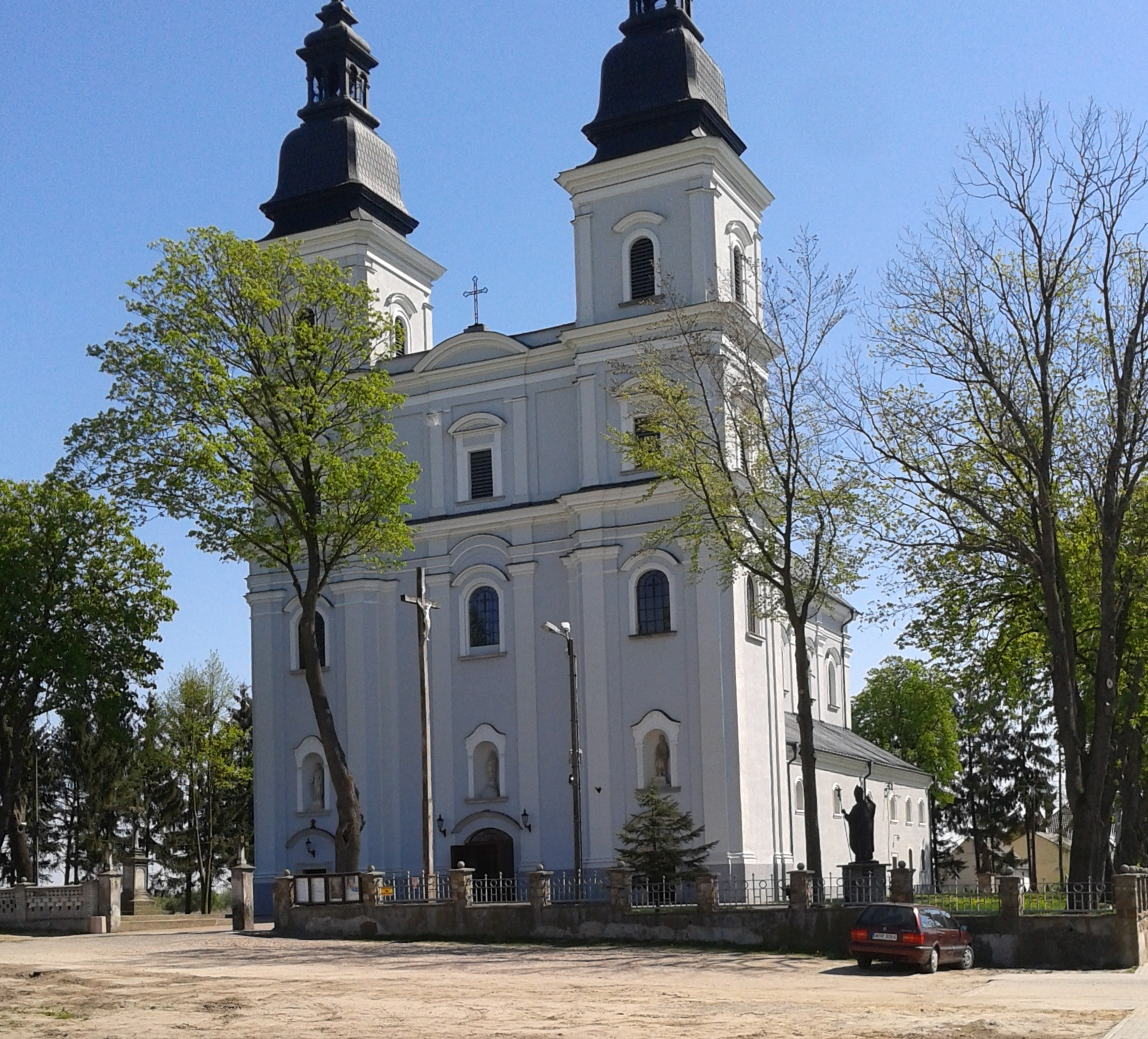 Church of the Nativity of the Blessed Virgin Mary in Stara Błotnica